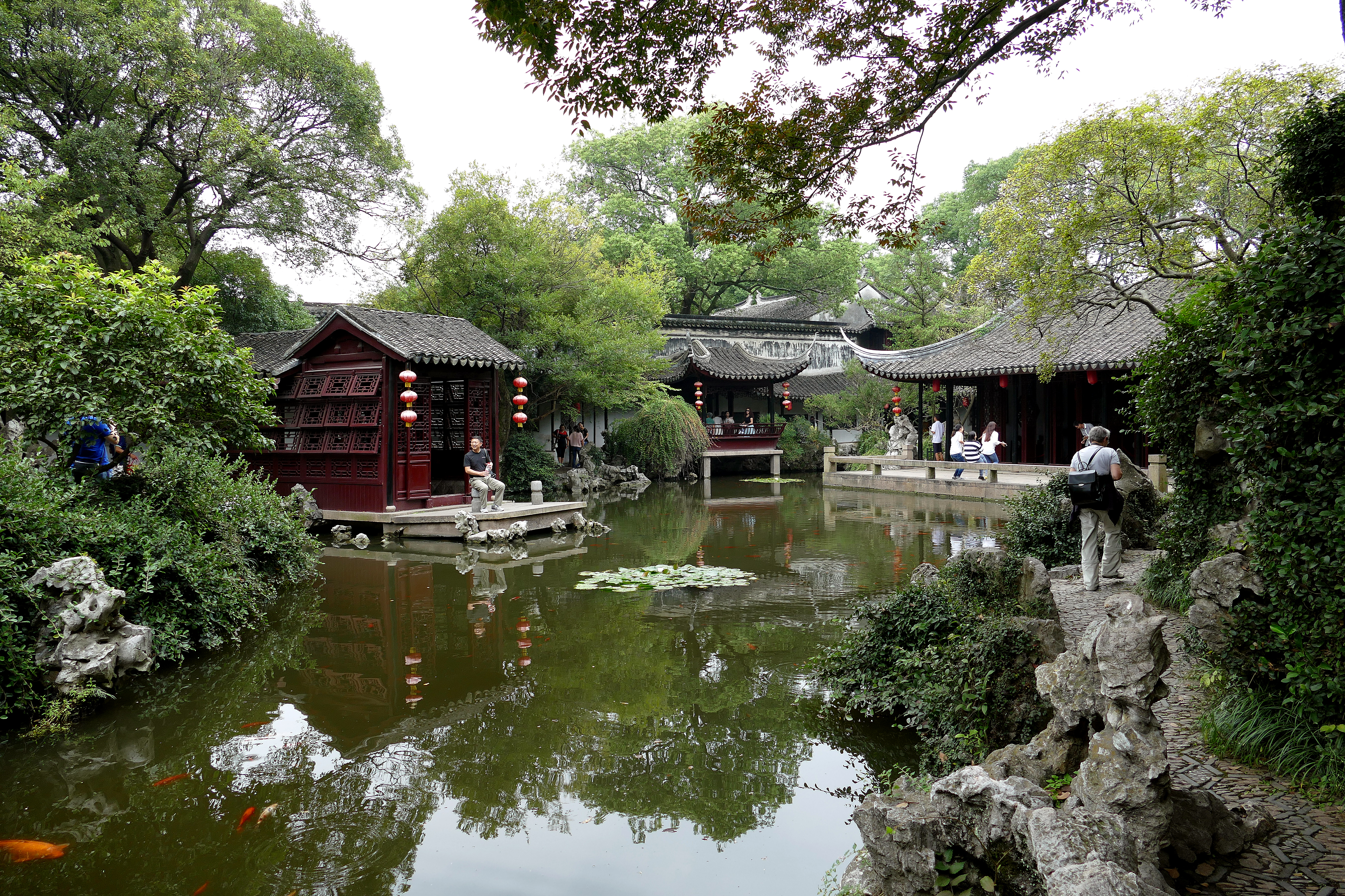 Tongli - Retreat & Reflection Garden